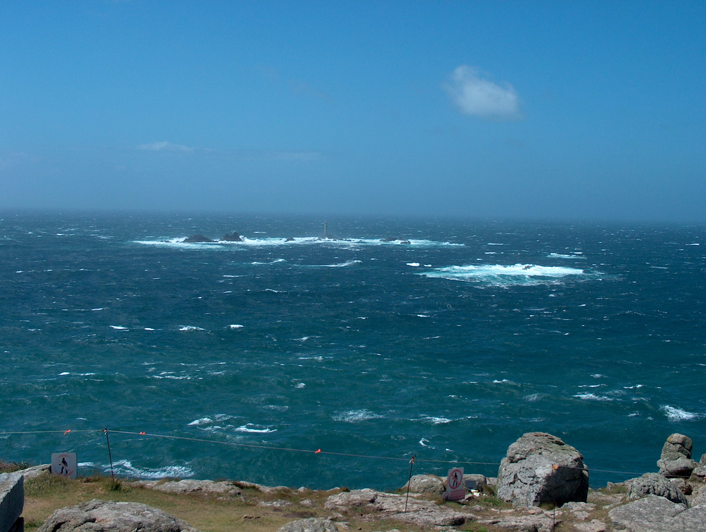 Land's End in Southwest England.